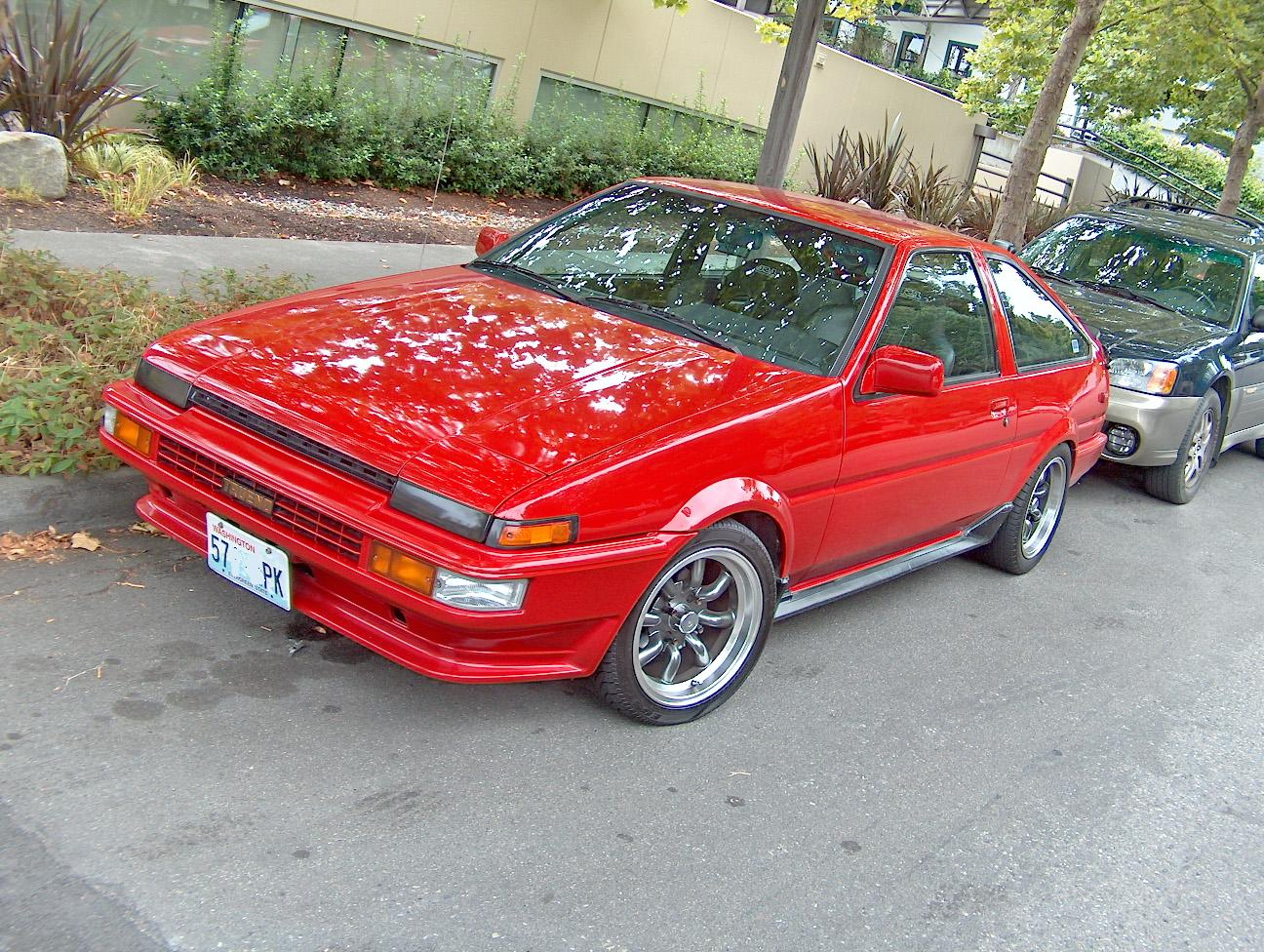 This Is The AE86 Trueno! The best car in the world! "Sprinter Trueno" badged AE86 Corolla